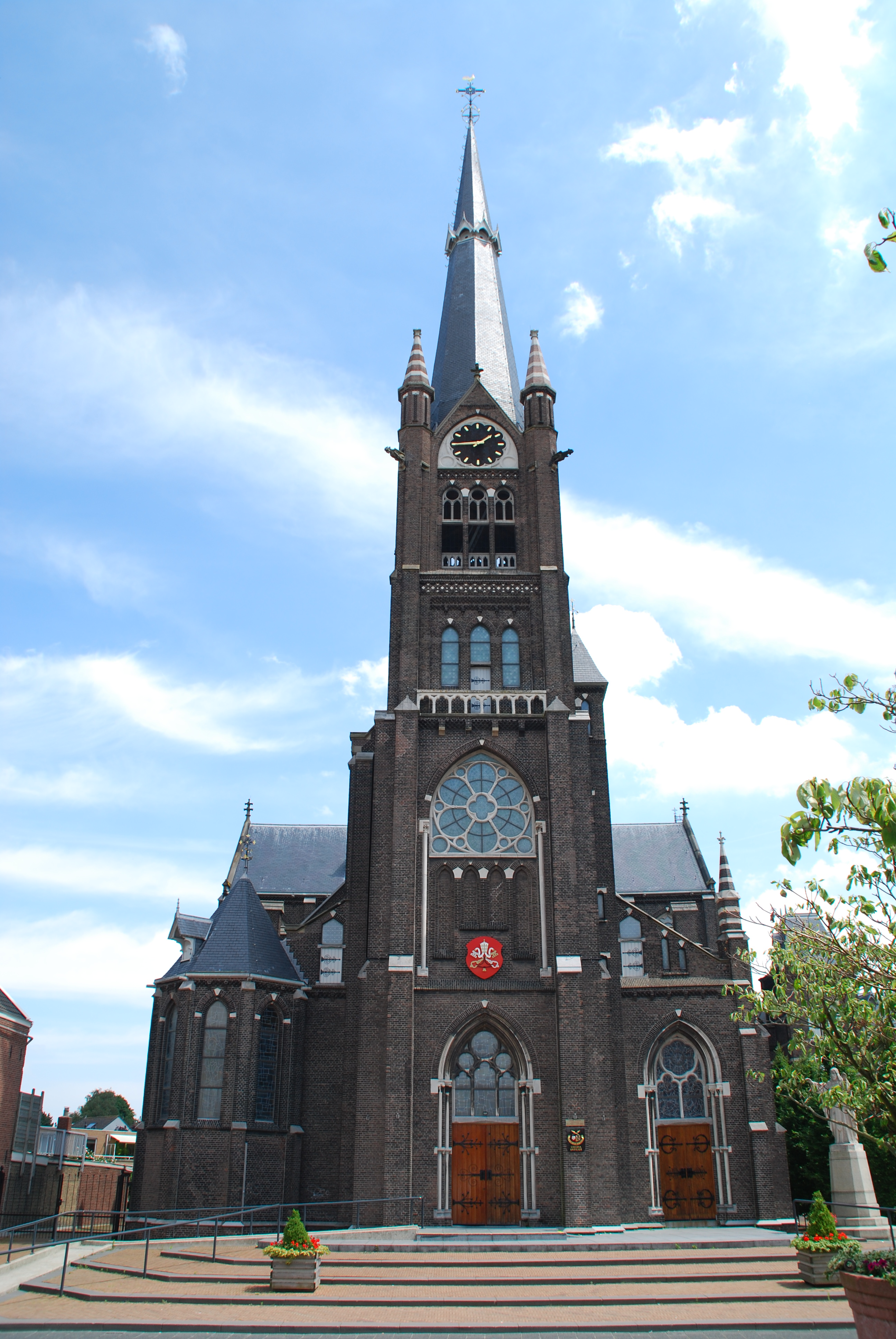 Singelkerk (Church of St Liduina), Basilica Minor in Schiedam, the Netherlands